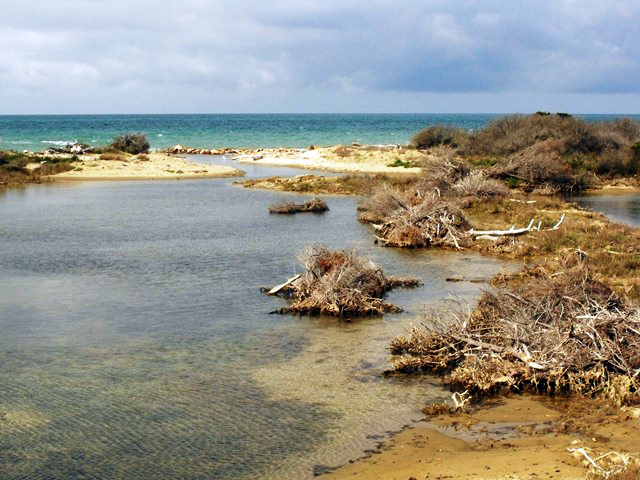 Natural habitat of Mediterranean killifish (Aphanius fasciatus) in the Natural Park of Maremma, Tuscany, Italy. This species can also be found in marine-, fresh- as well as brackish water in Albania, Algeria, Bosnia and Herzegovina, Croatia, Cyprus, Egypt, France, Greece, Israel, Italy, Lebanon, Libya, Malta, Morocco, Montenegro, Slovenia, Spain, Syria, Tunisia, and Turkey.